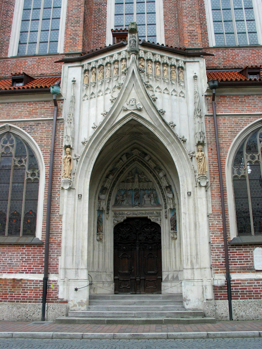 Landshut, Church of St Martin, south-western portal (Bauernportal)